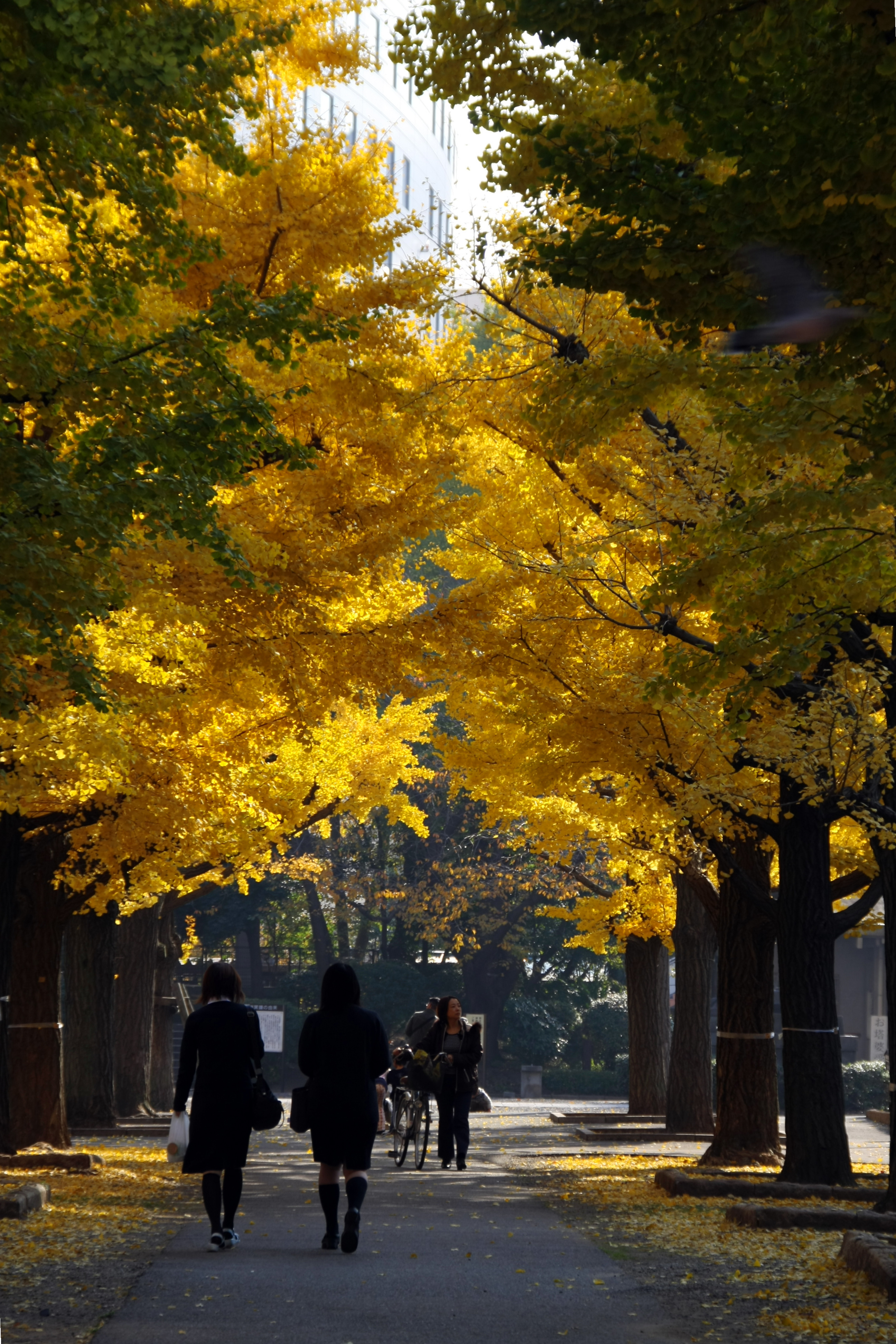 The following is the author's description of the photograph quoted directly from the photograph's Flickr page."Yokoami, Tokyo JapanSee where this picture was taken. [?] "